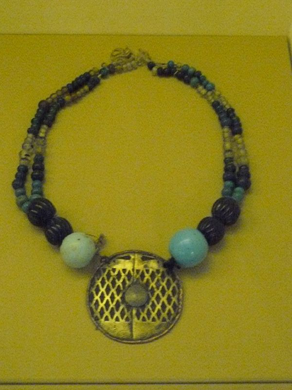 Ainu. Tamasay (Bead Necklace), late 19th-early 20th century. Brass, different kinds of beads, metal wire, and cotton ribbon. Brooklyn Museum, Gift of Herman Stutzer, 12.738.